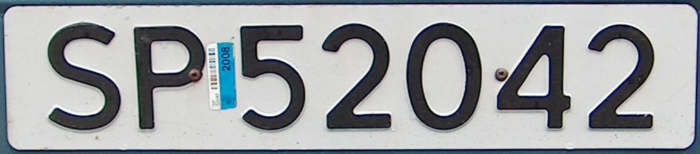 Norwegian license plate from 1971-2001, SP = Bergen